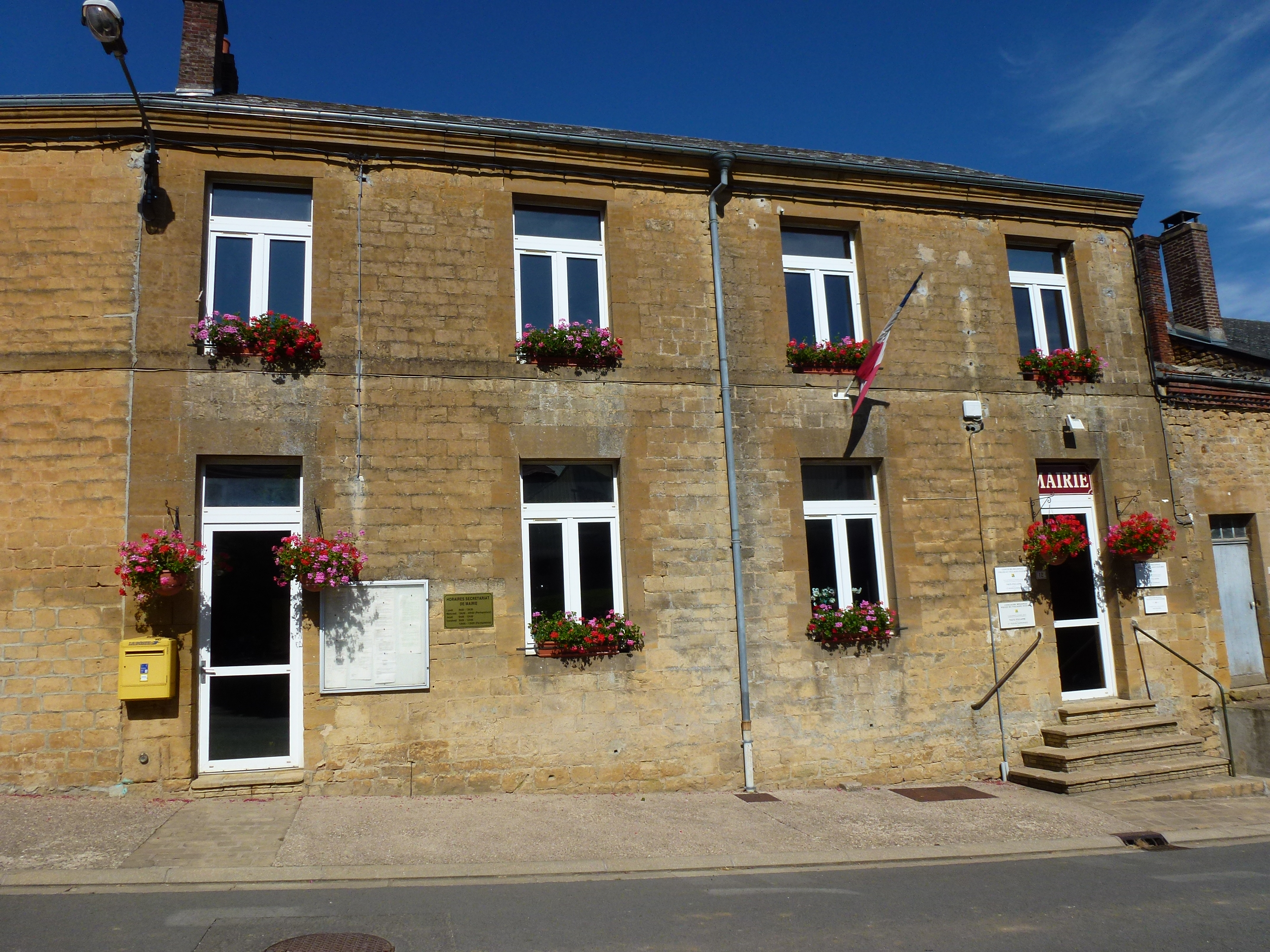 Vaux-Villaine (Ardennes) Mairie à Vaux